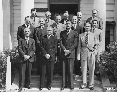 AWM Caption: CANBERRA, ACT. C. 1954. MEETING OF OFFICIAL WAR HISTORIANS AT ACTON OFFICES THERE TO ATTEND A MEETING OF WRITERS. LEFT TO RIGHT: BACK ROW: MR DOUGLAS GILLISON MR LIONEL WIGMORE MR. GEORGE HERMON GILL DR ALLAN S. WALKER MR CHESTER WILMOT CENTRE: MR PAUL HASLUCK PROFESSOR S.J. BUTLIN MR GEORGE ODGERS SQUADRON LEADER JOHN HERINGTON MR DAVID DEXTER FRONT: MR JOHN BALFOUR DR D.P. MELLOR MR GAVIN LONG MR DUDLEY MCCARTHY